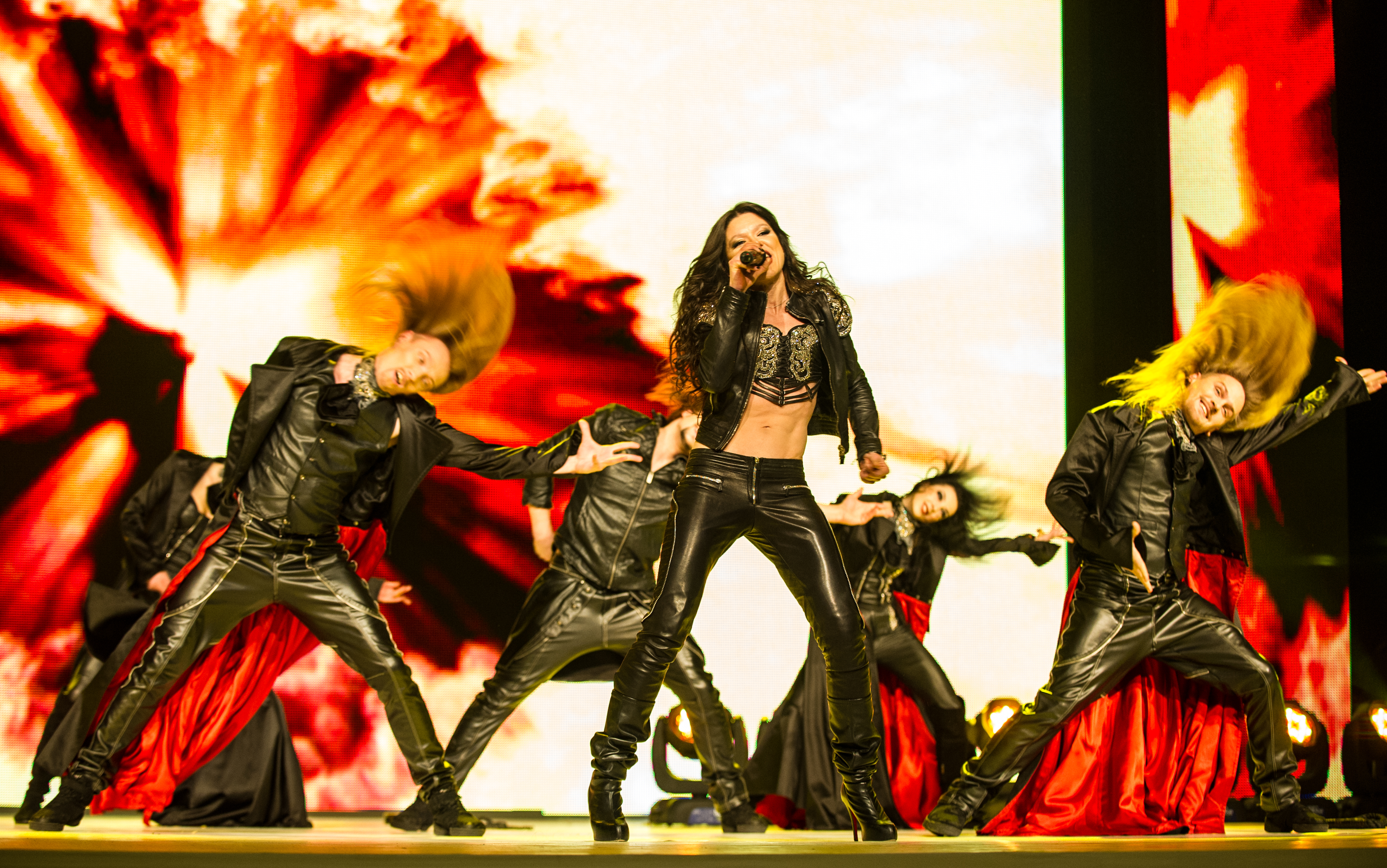 Ruslana Stepanivna Lyzhychko winner of the Eurovision Song Contest 2004. Azerbaijan, Baku Buta Palace.